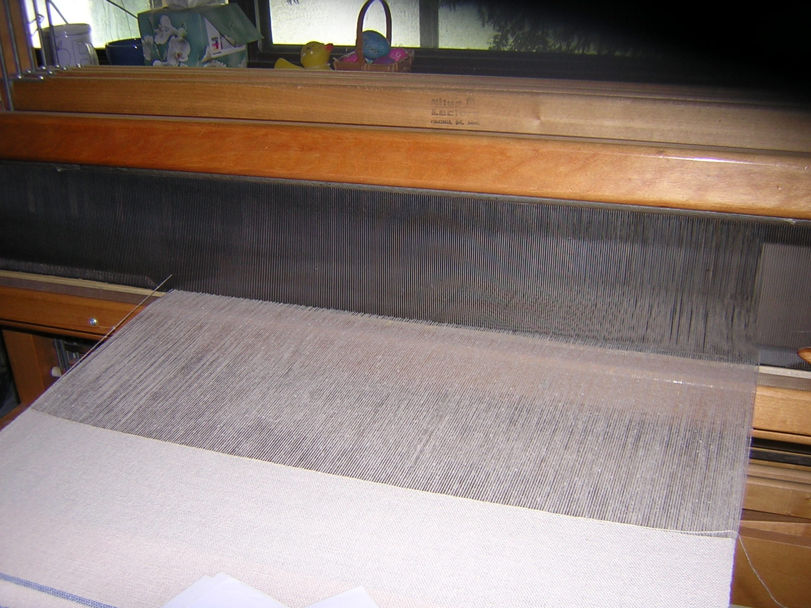 this is a picture of a loom, uploaded to show where the reed is in the loom for context